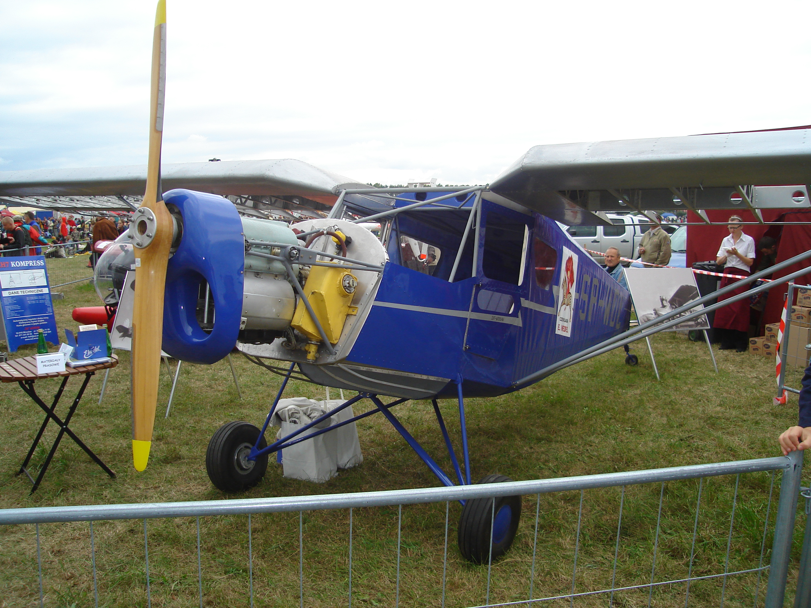 Picture of RWD 13, Radom Air Show 2007